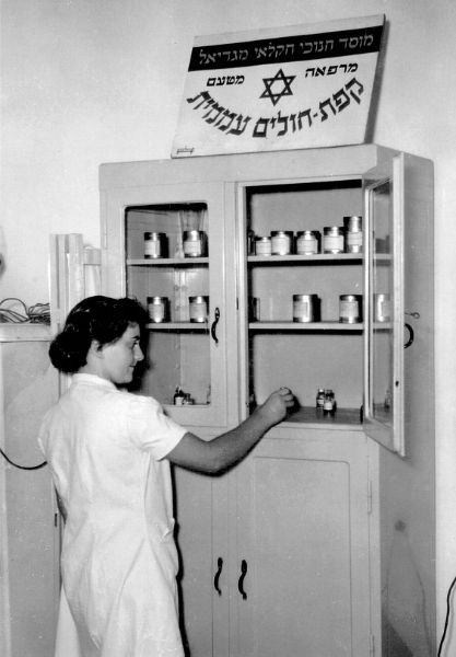 A nurse in Kupat Cholim Amamit clinic in Aliyat Hano'ar school in Magdiel